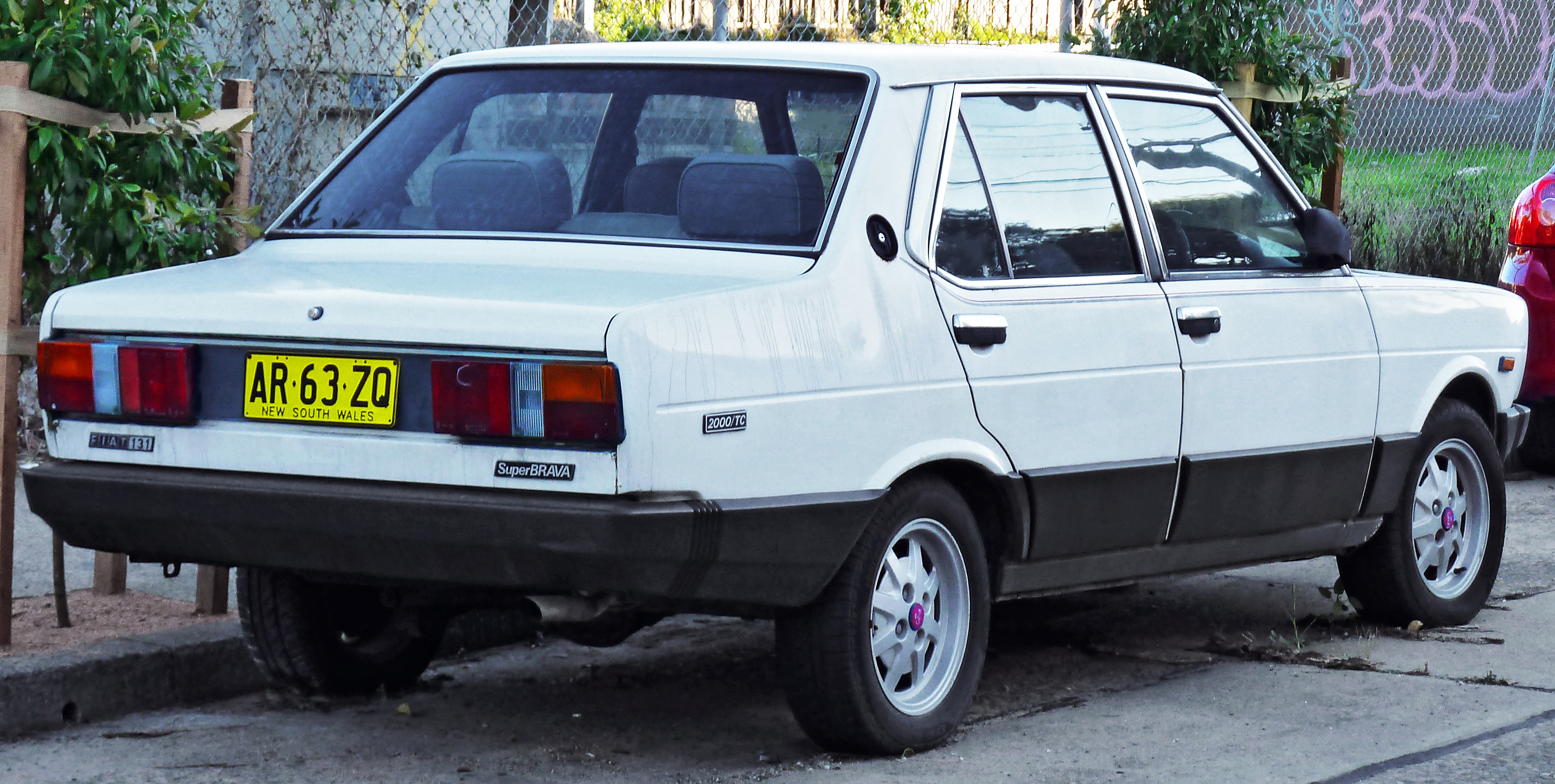 1984 Fiat 131 SuperBrava 2000 TC sedan. Photographed in Newtown, New South Wales, Australia.